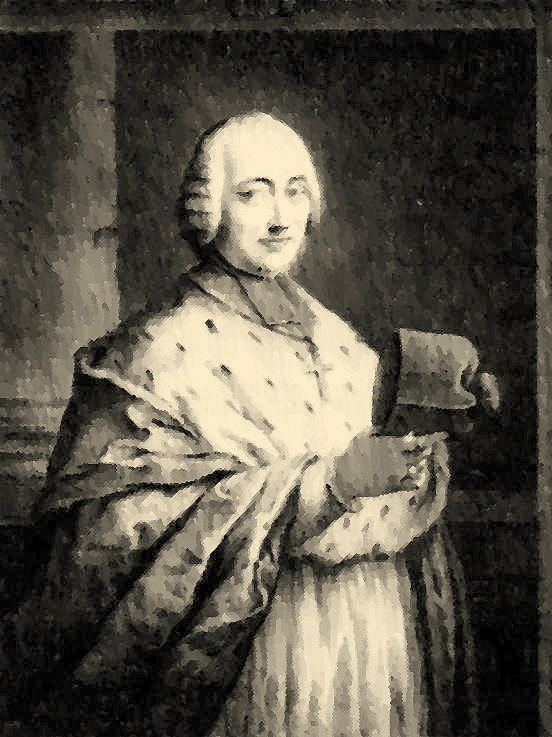 Portrait of Charles Nicolas d'Oultremont (1716-1771), Prince-Bishop of Liège from 20 April 1763 till 22 October 1771